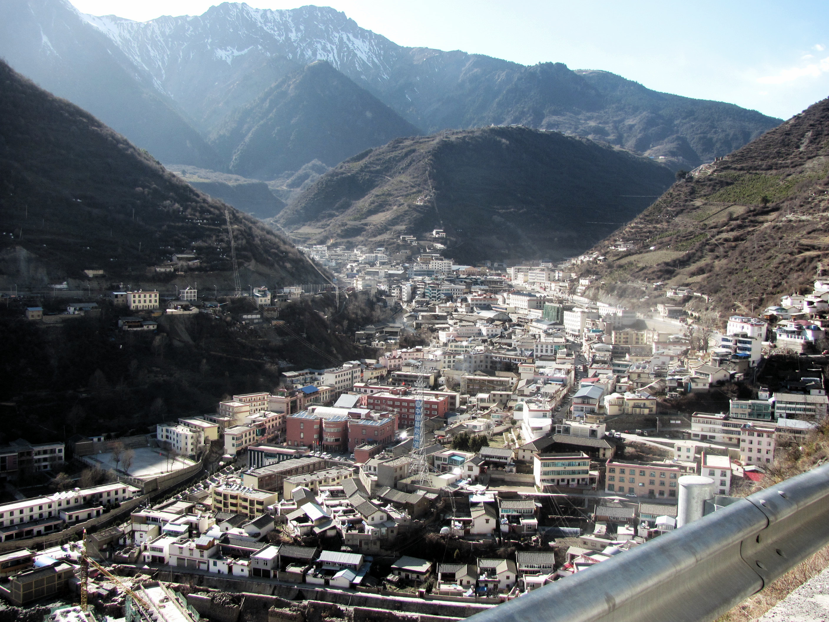 Deqing, Diqing, Yunnan